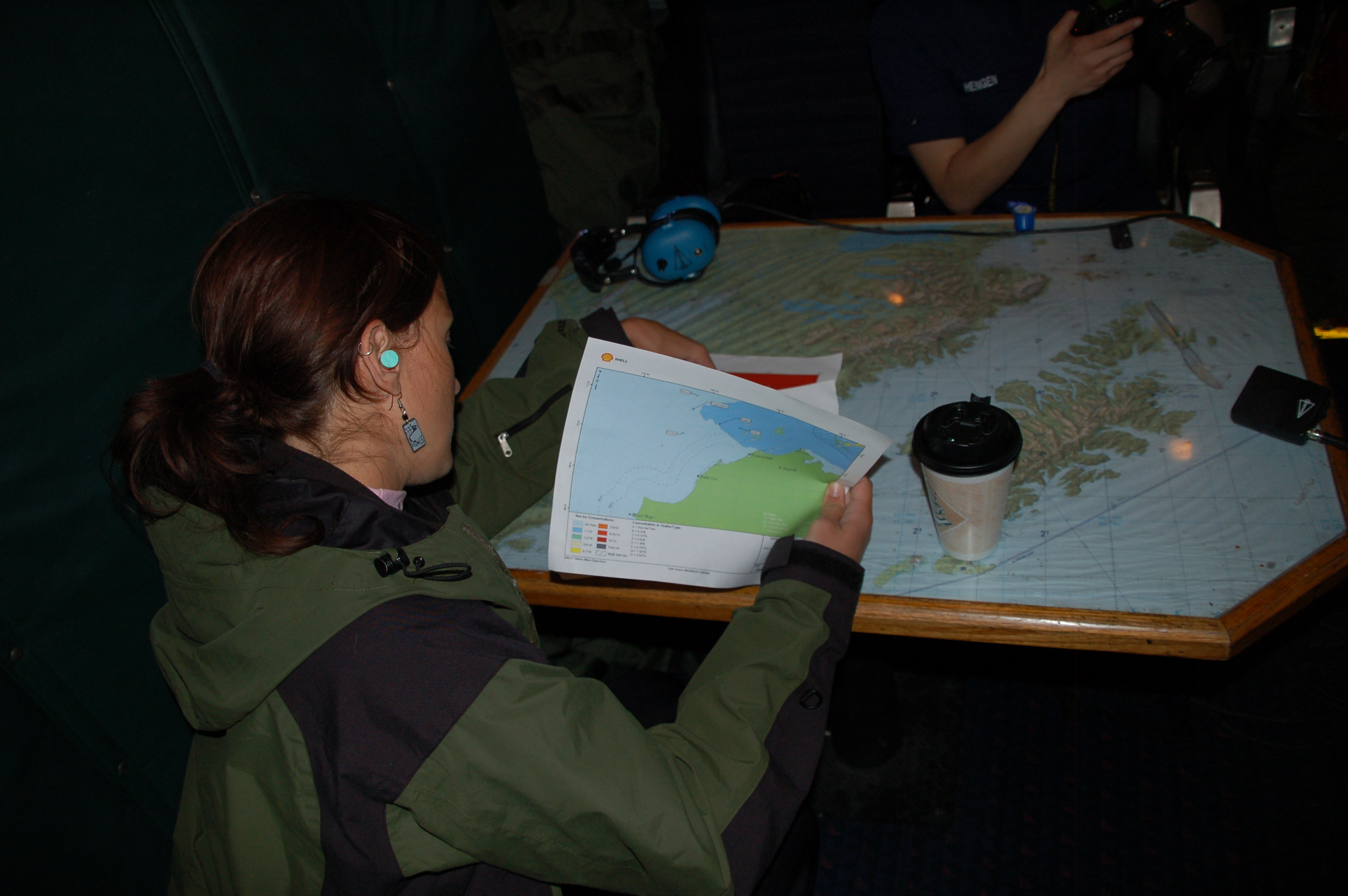 Heather Zichal, Dep. Assist to the President for Energy and Climate Change reviews the current location of the Arctic ice field during an Arctic Domain Awareness flight